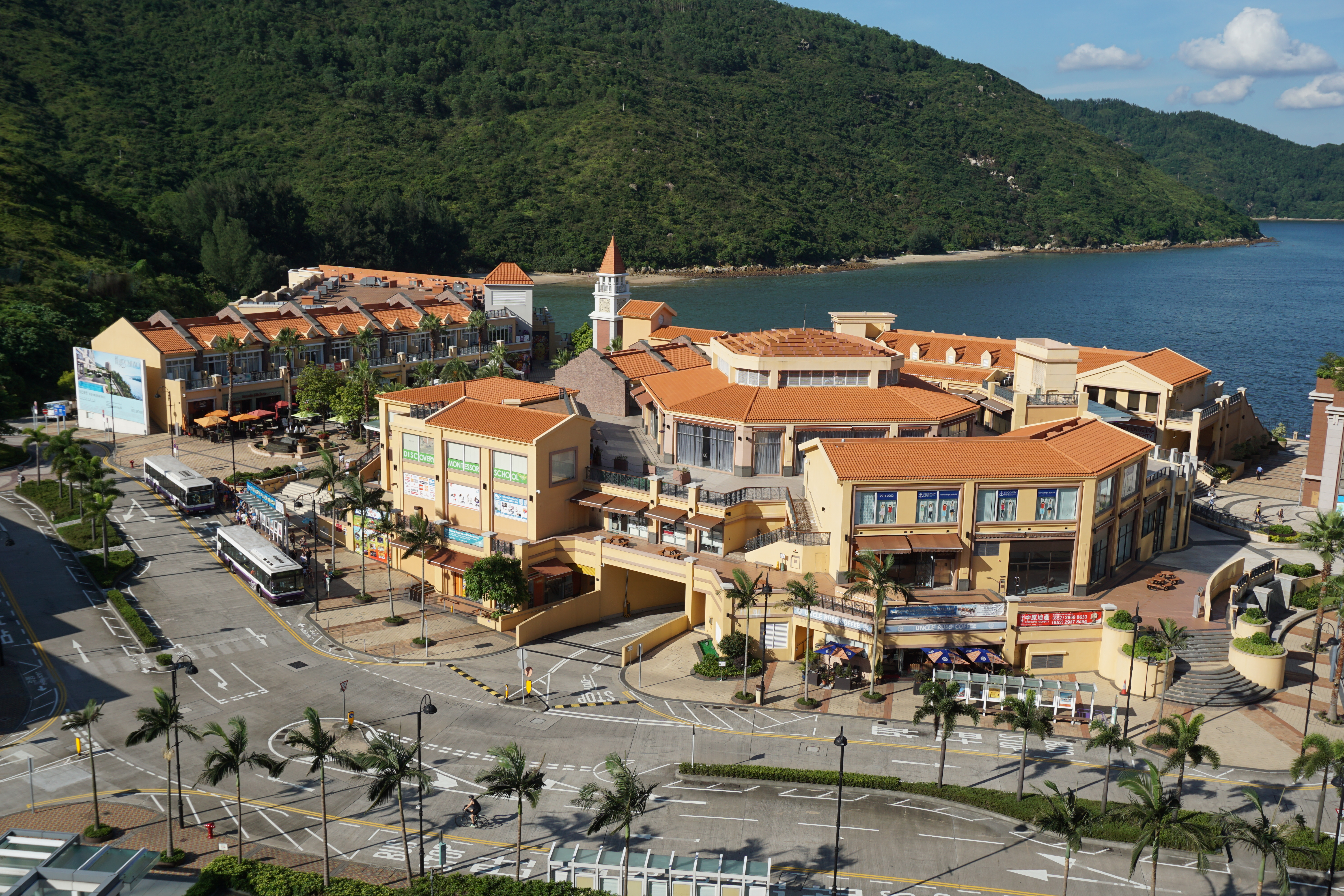 North Plaza in Discovery Bay, Hong Kong.